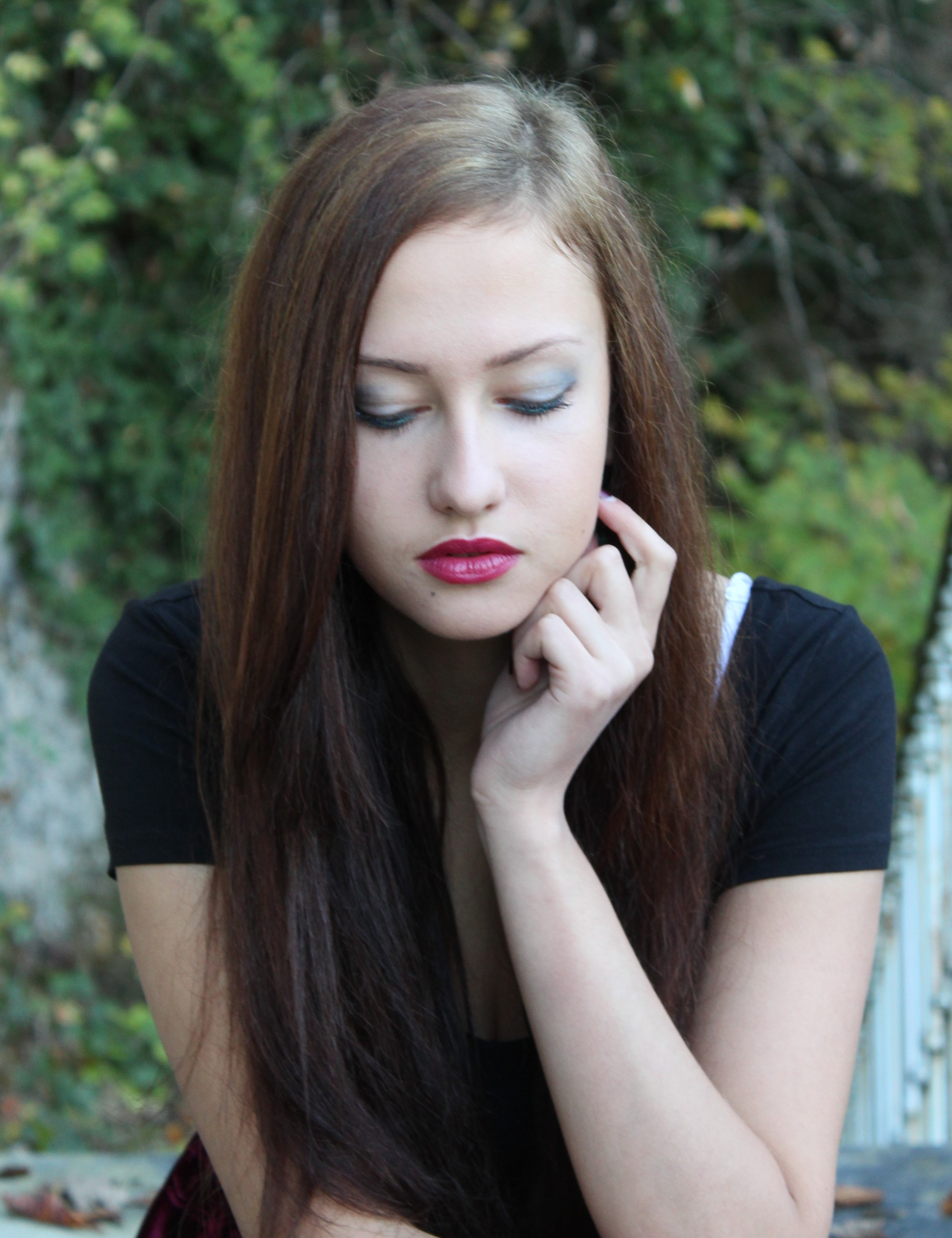 Cecile Haussernot International Master chess player